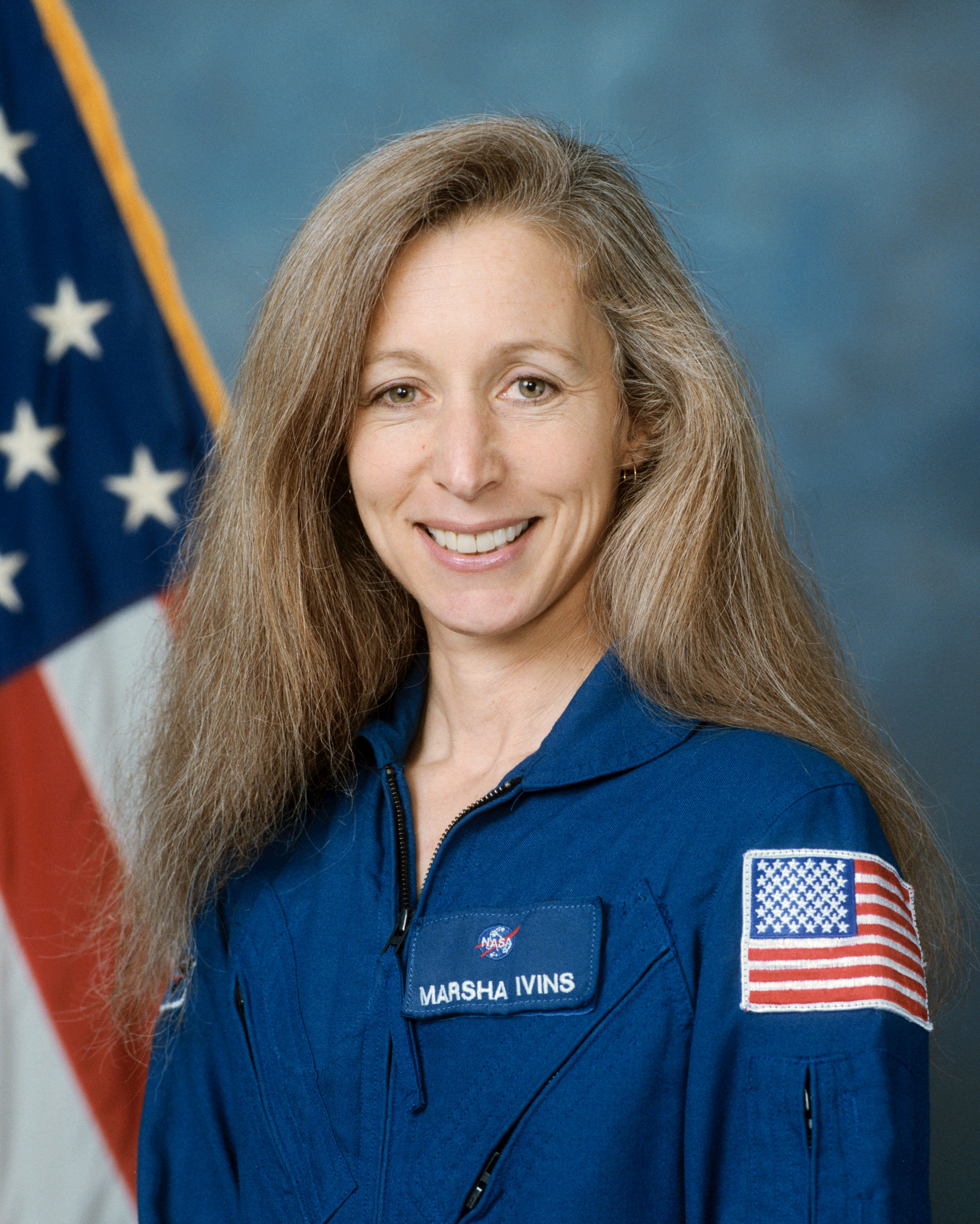 Astronaut Marsha S. Ivins, mission specialist